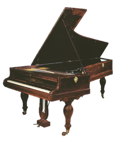 The first grand piano brought to Lisbon, Portugal. It was brought by Franz Liszt in 1845, and was offered to Queen Maria II who, in turn, gave it to Manuel Inocêncio Liberato dos Santos, music master of the Royal Household.